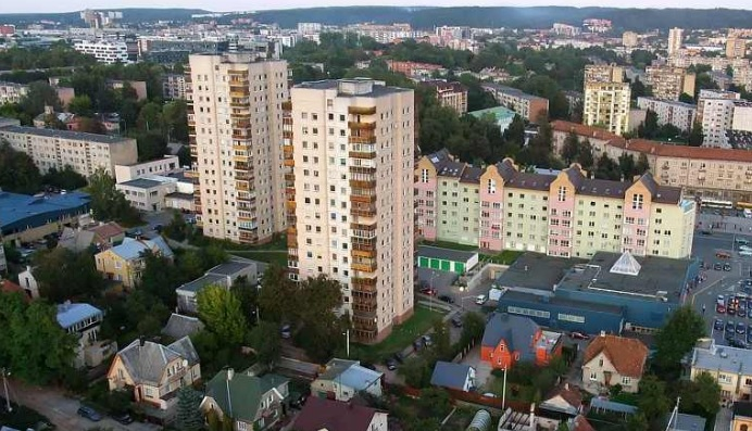 Vilnius - capital of Lithuania